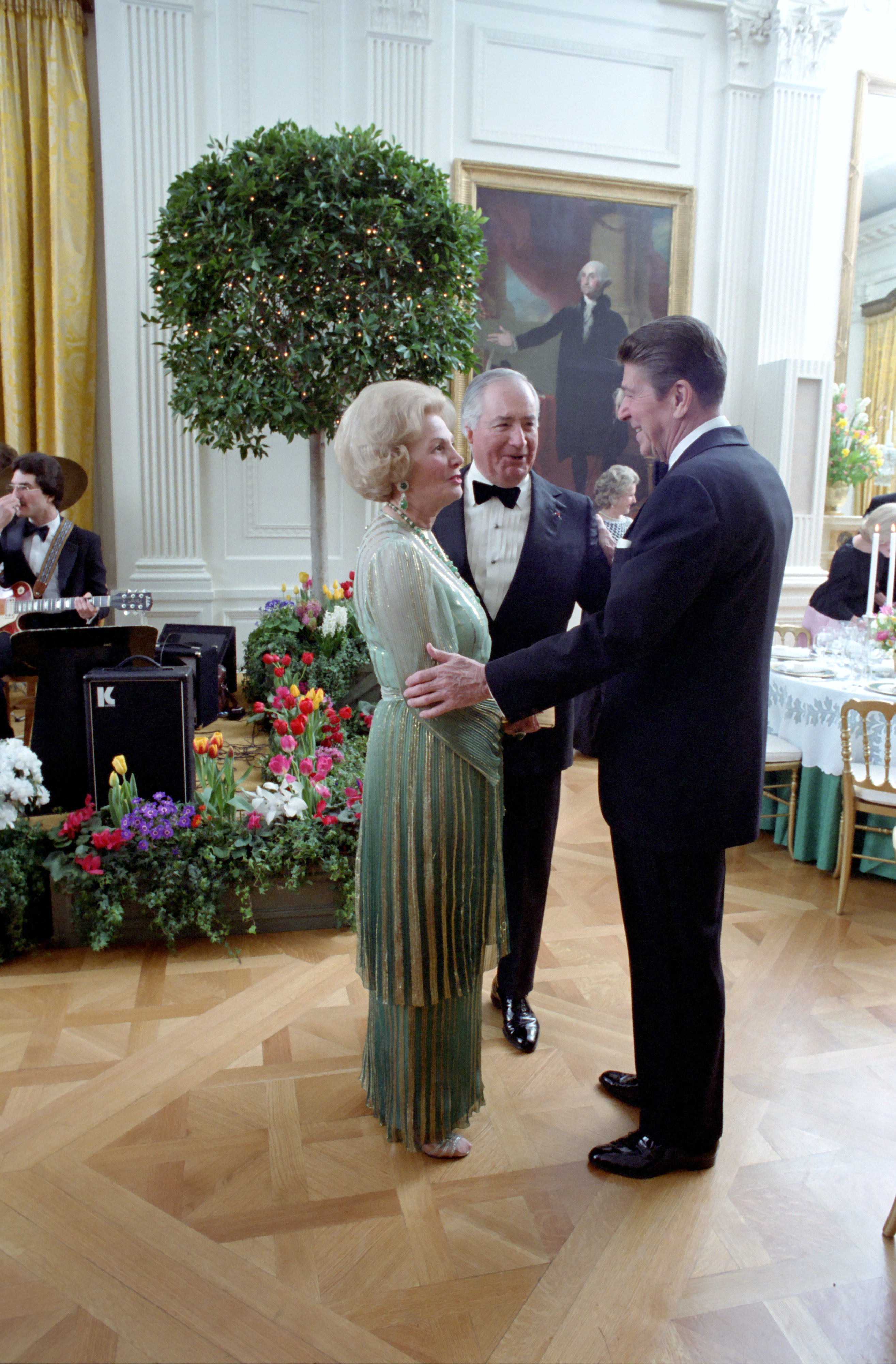 President Ronald Reagan Talking to Leonore Annenberg and Walter Annenberg at The President'S Birthday Party in The East Room, 2/6/1981